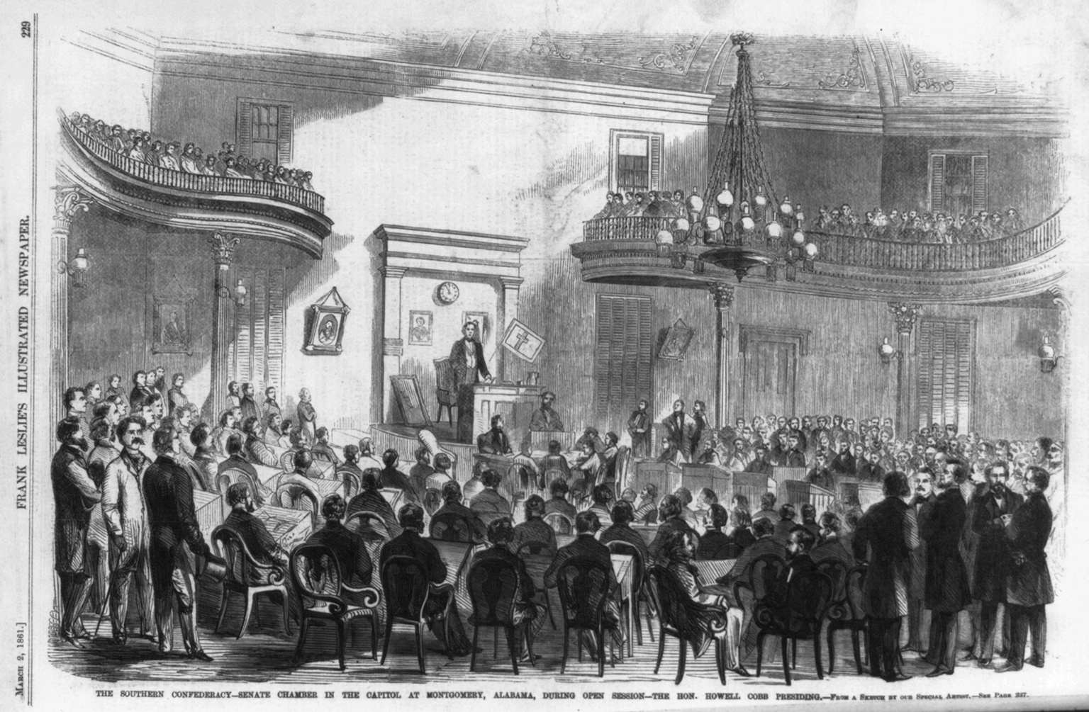 The Southern Confederacy - Senate Chamber in the Capitol at Montgomery, Alabama, during open session - the Hon. Howell Cobb presiding